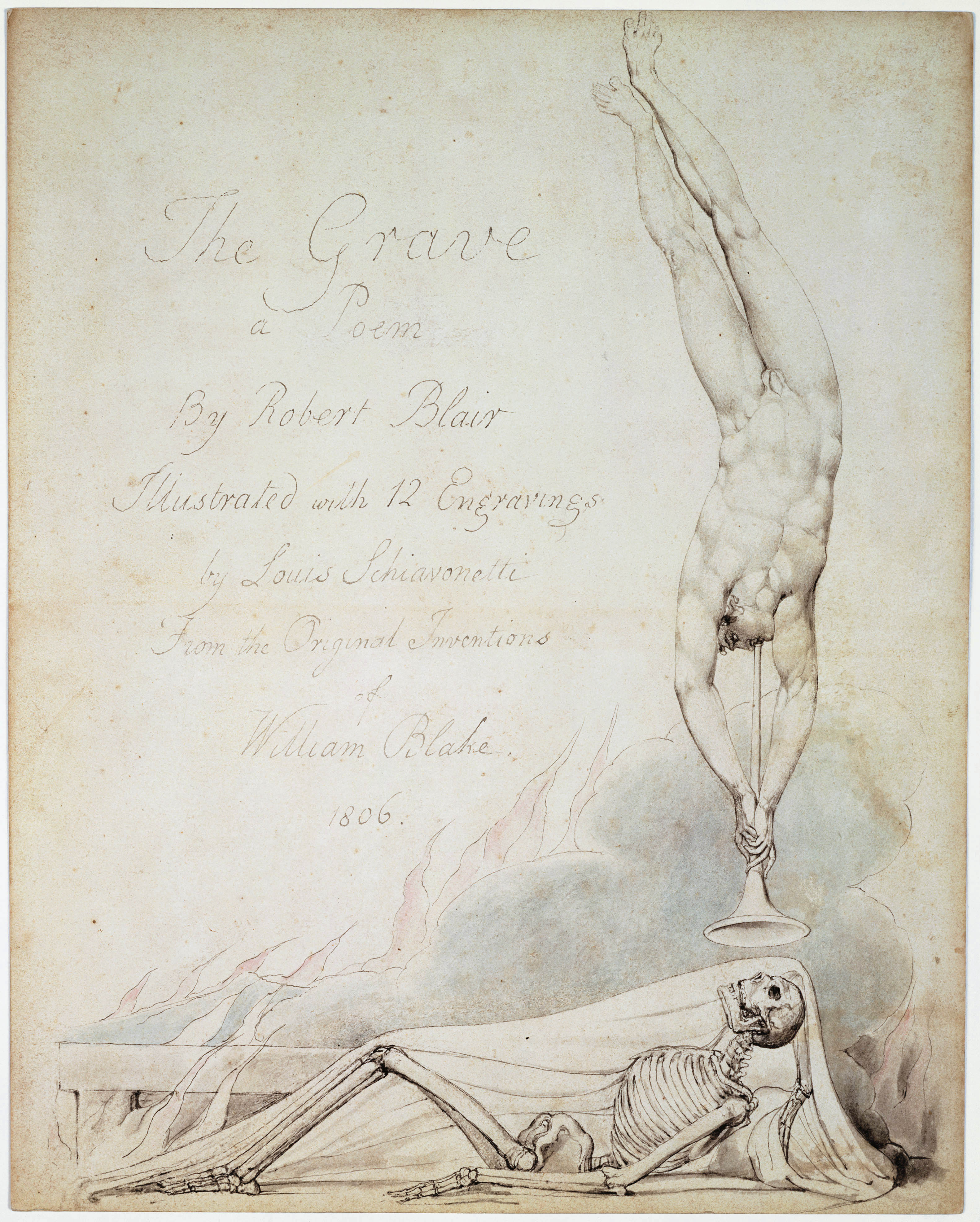 Illustrations to Robert Blair's The Grave , object 1 Title-Page Design for The Grave